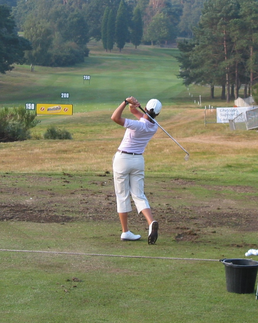 Lorena Ochoa on the practice range during the Women's British Open 2004 Pro-Am at Sunningdale Golf Club